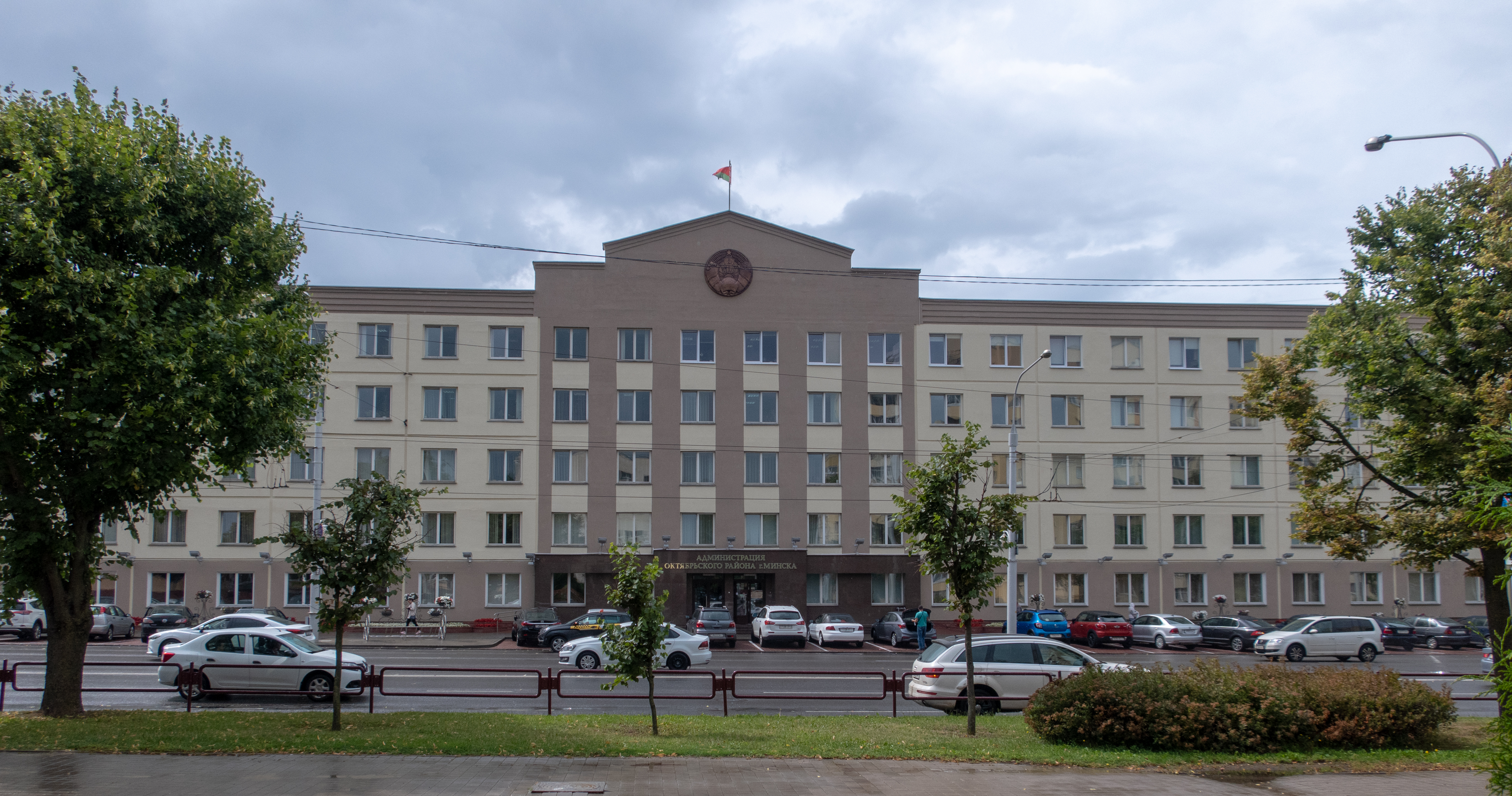 Čkalava street (Minsk, Belarus)